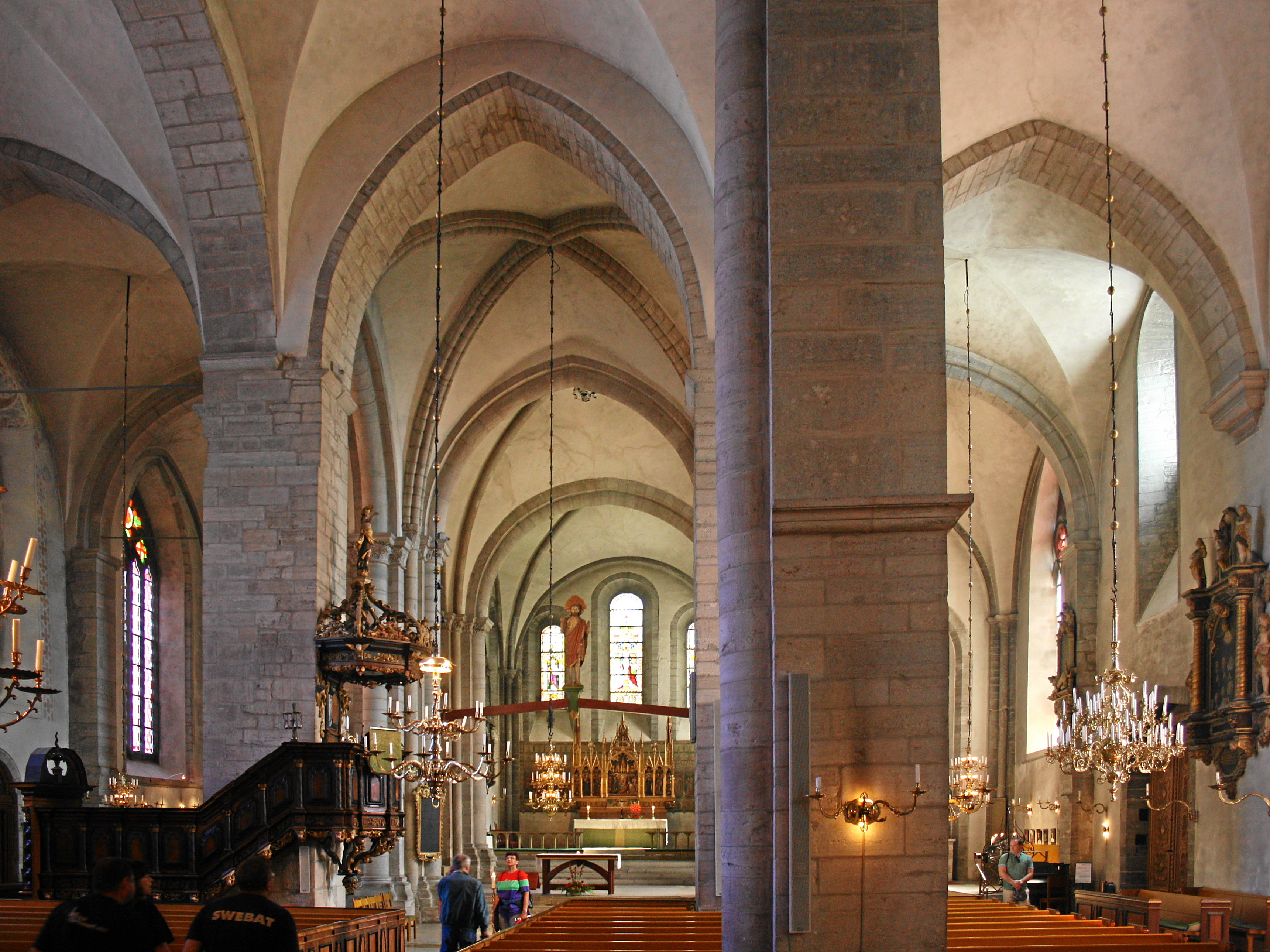 Visby, Sweden. Protestant cathedral, interior towards east.